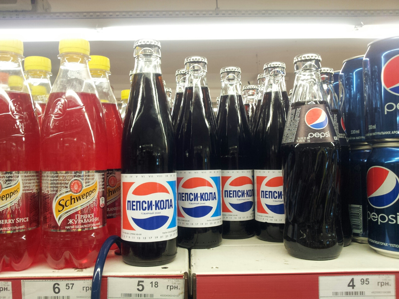 Classic Pepsi bottles in supermarket in Kiev